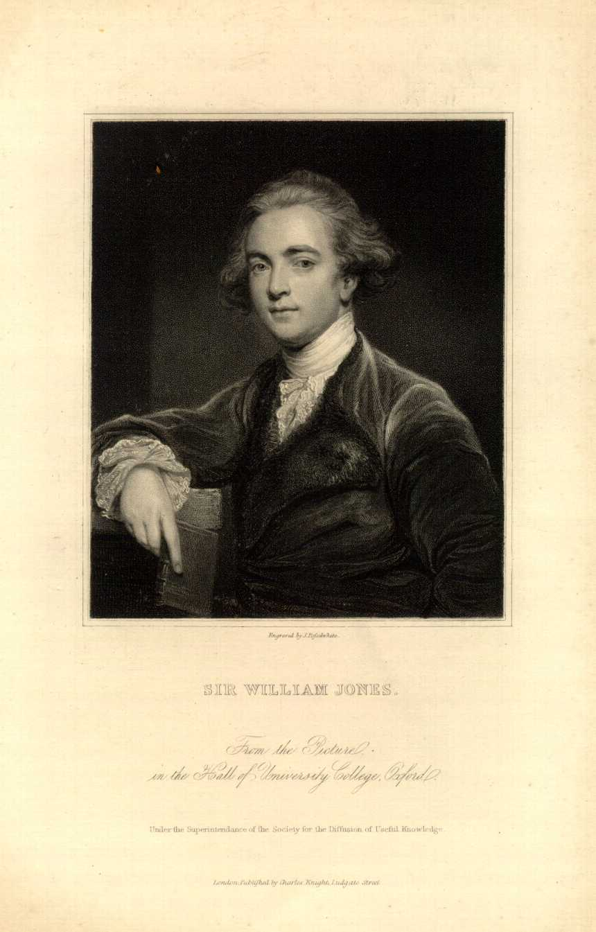 Sir William Jones (1746 - 1794), From the Picture in the Hall of University College, Oxford.